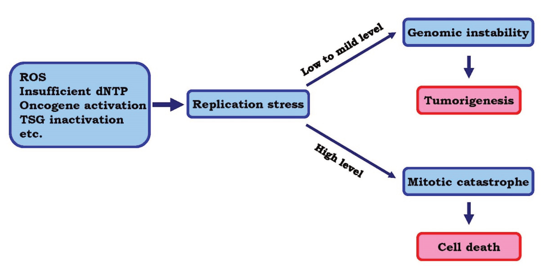 DNA replicative stress can be induced by various factors including ROS, insufficient dNTP, oncogene activation or the loss/inactivation of tumor suppressors, etc. At the low to mild level, the replicative stress predominantly induces genomic instability, therefore facilitates tumorigenesis and cancer progression. However, when the replicative stress is enhanced to a high level through further loss of checkpoints, cancer cells may enter the mitotic phase with incomplete or uncorrected DNA replication, which eventually leads to cell death through mitotic catastrophe. Therefore, enhancing replicative stress can be a novel approach to kill cancer cells. TSG: Tumor suppressing gene.[1]